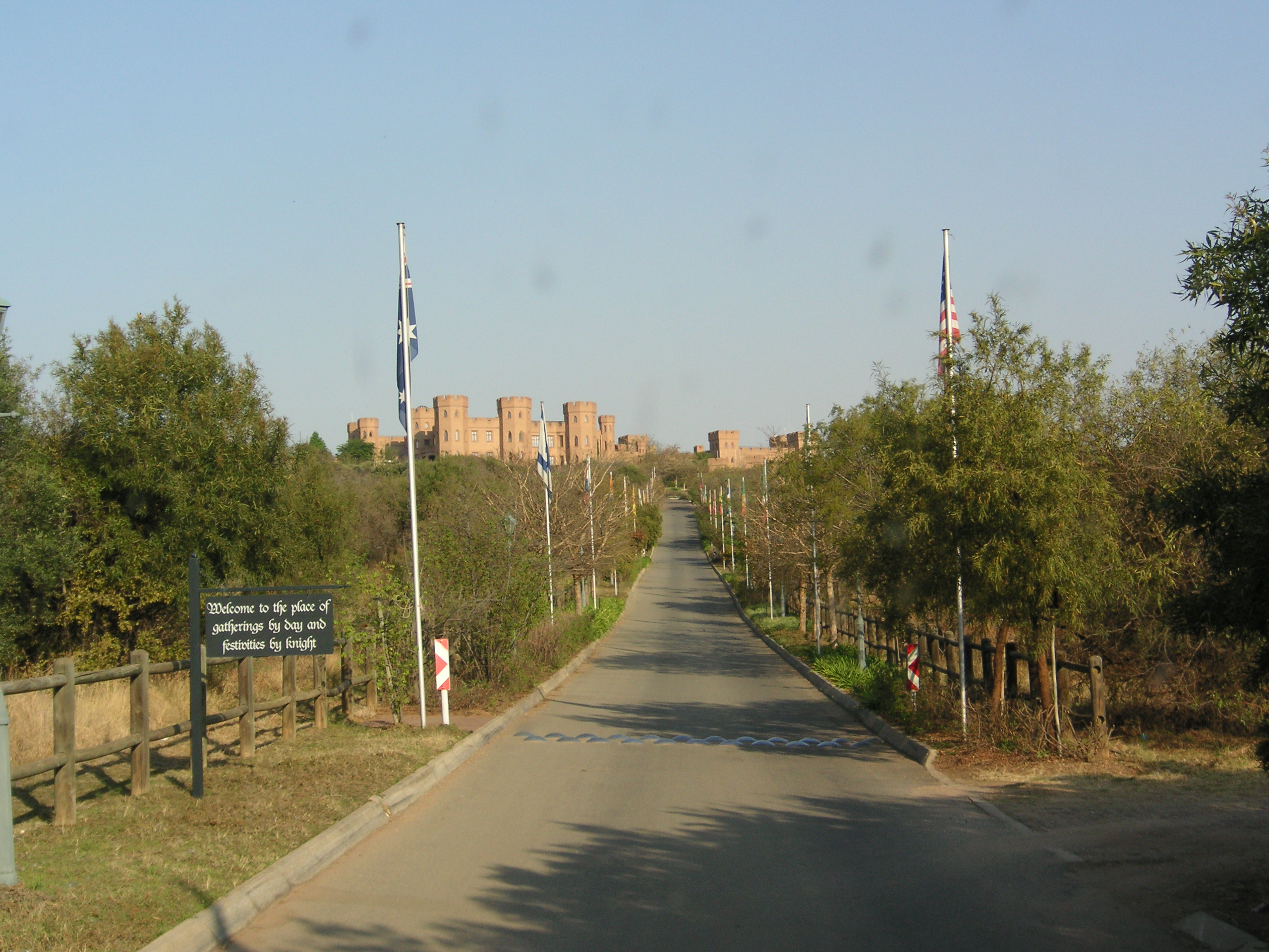 Castle Kyalami in South Aftica